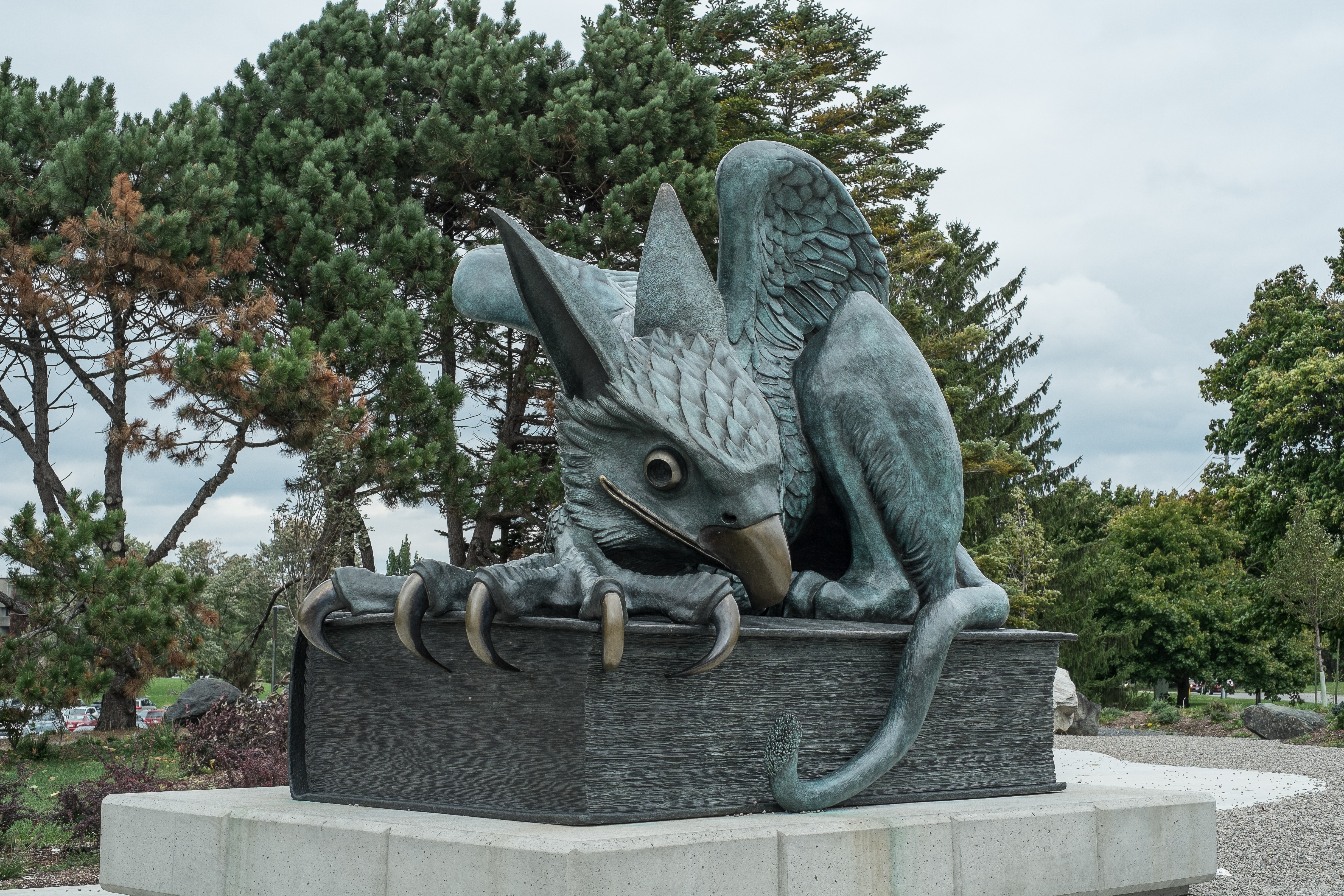 Gryphon sculpture at the University of Guelph